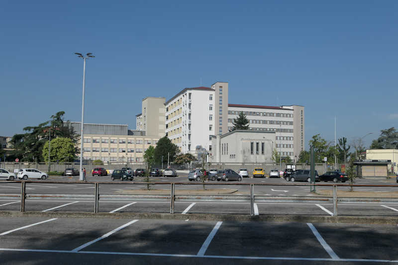 Crema (Italy), Ospedale (Hospital) Maggiore